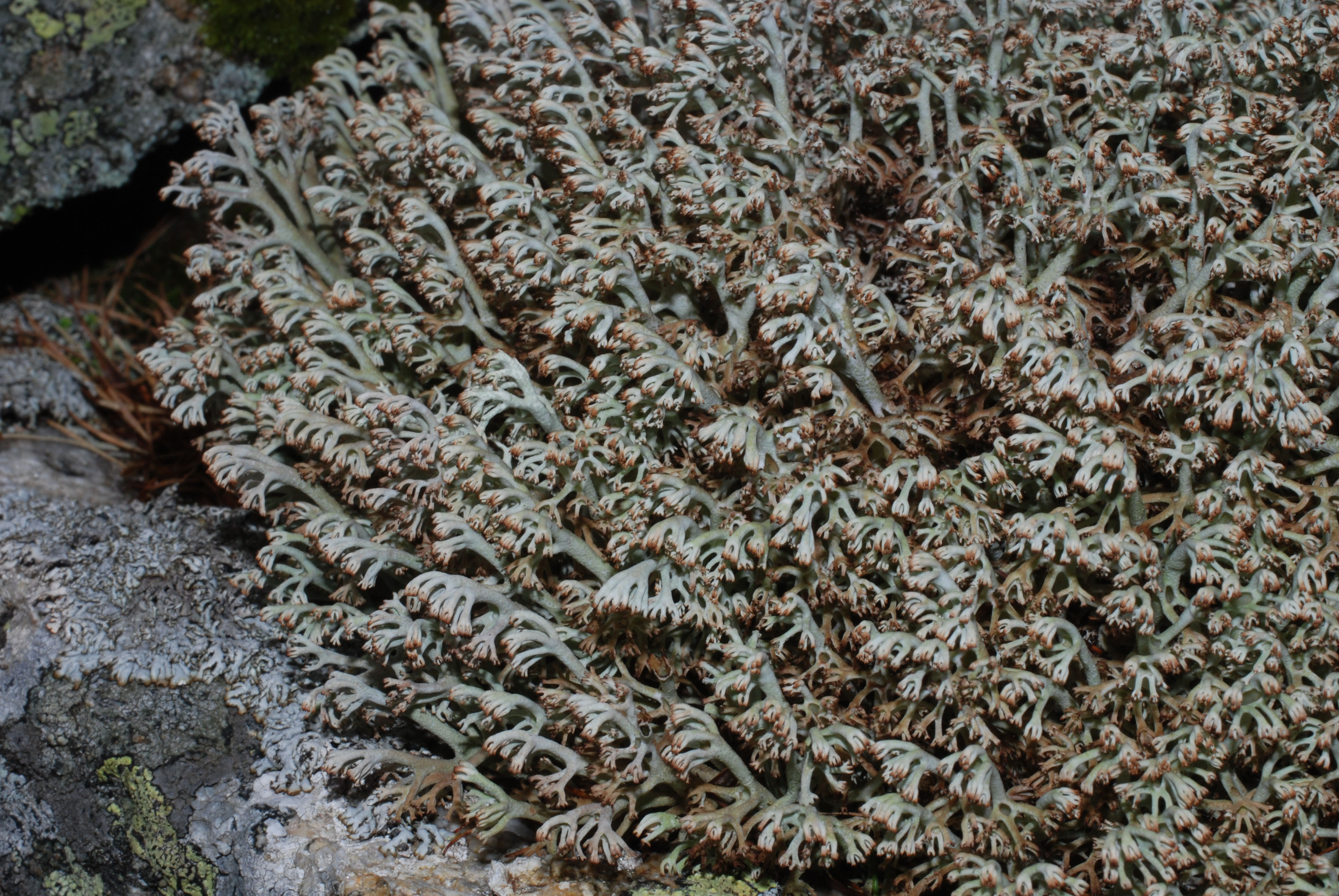 Cladonia rangiferina, near Erlacher Haus ~1700m, Nockberge, Austria